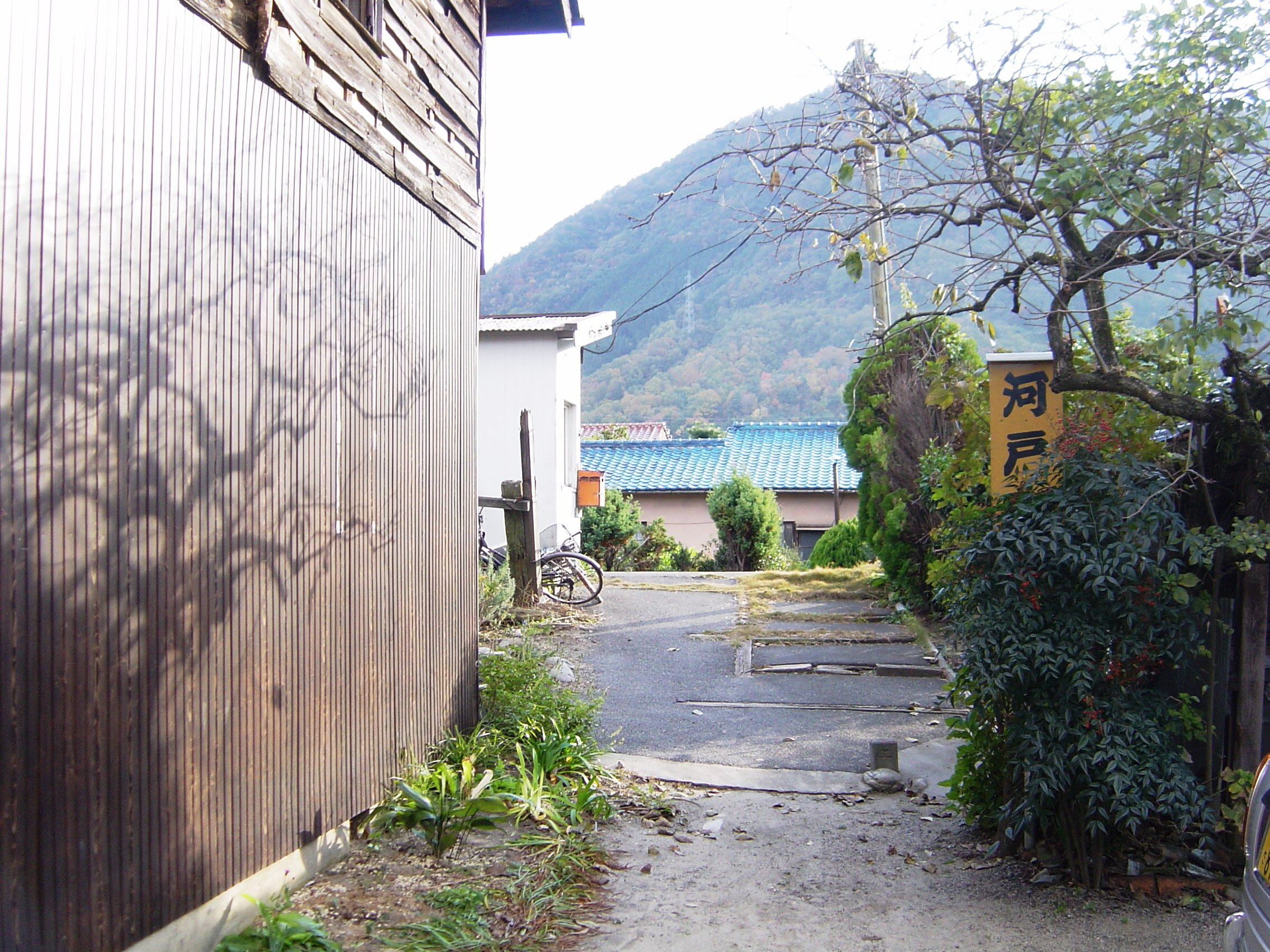 The alley leading to Kōdo Station at the beginning of the suspended part of the Kabe Line , formerly on the JR West Kabe Line in Hiroshima, Hiroshima Prefecture, Japan.